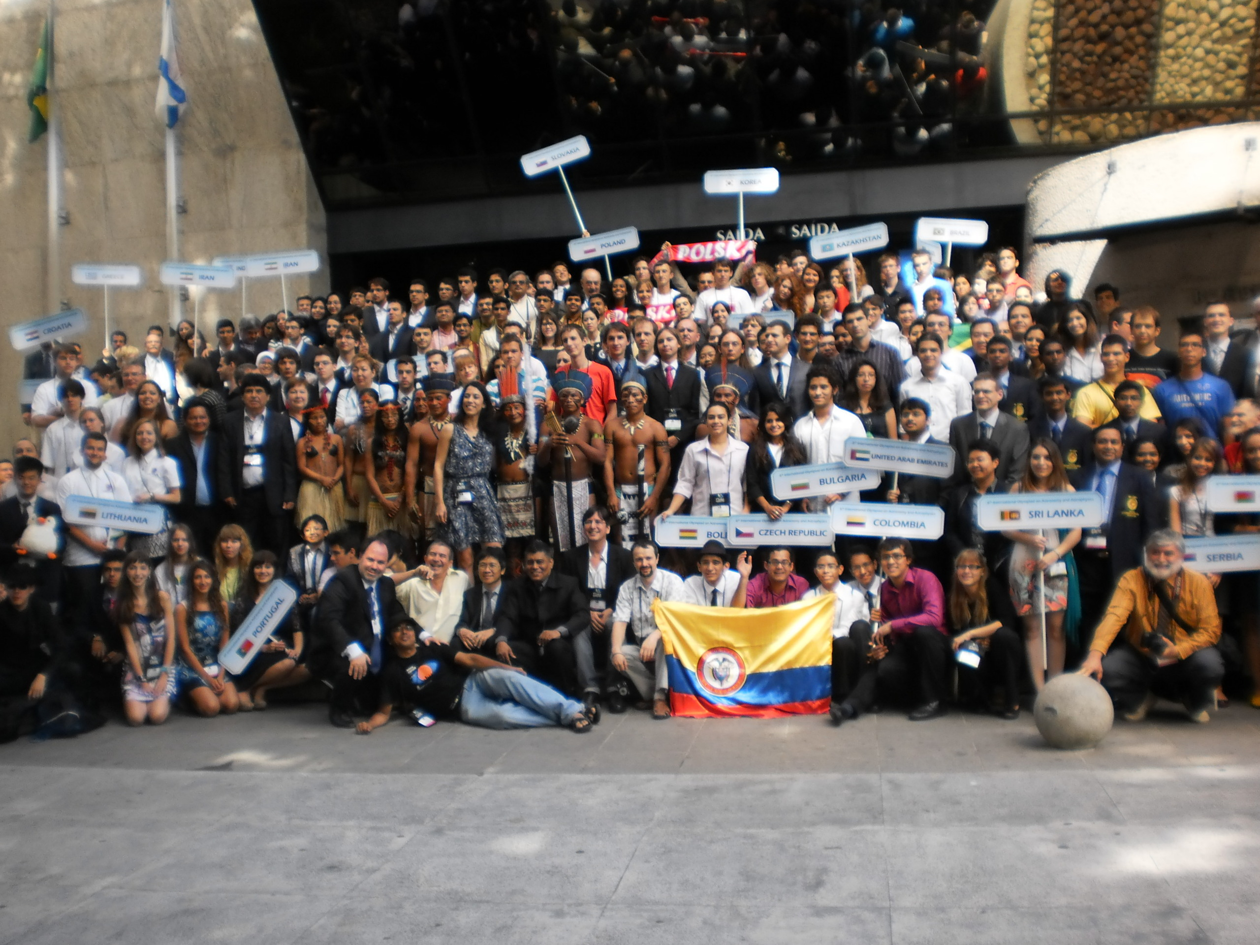 IOAA 2012 Official Photo, including all leaders, students, guides and staff, shortly after the Opening Ceremony, at Rio Planetarium, Rio de Janeiro, Brazil.